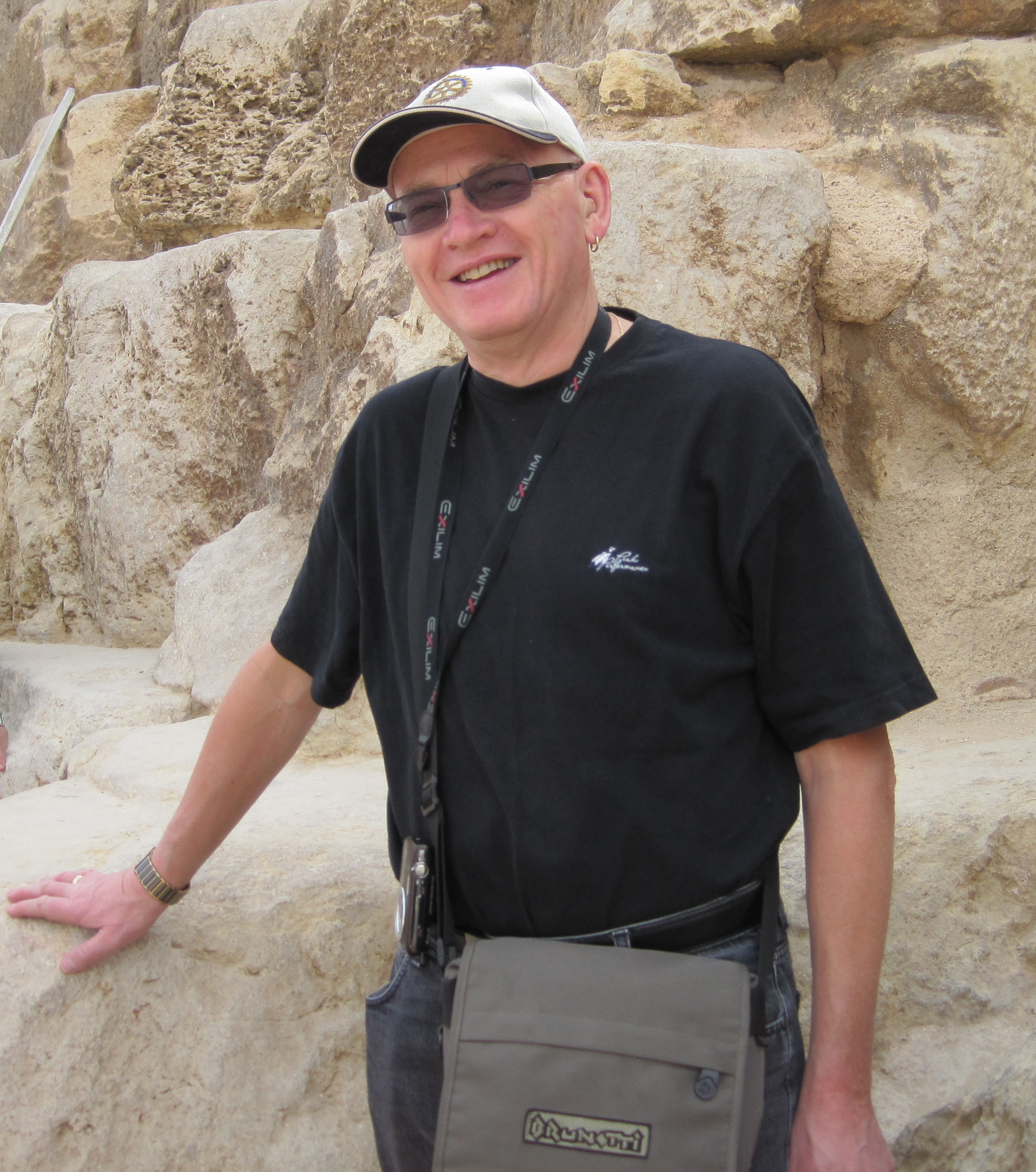 Rolf Theil, professor of general and African linguistics at the University of Oslo, Norway. The photograph was taken on 5 March 2010, at the Great Pyramid of Giza.